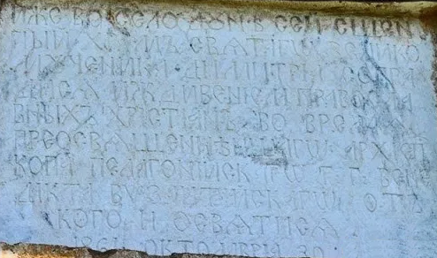 Saint Demetrius Church in Dunje Inscription